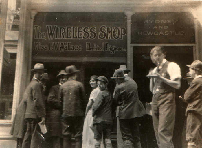 People outside Violet McKenzie's wireless shop in the Royal Arcade